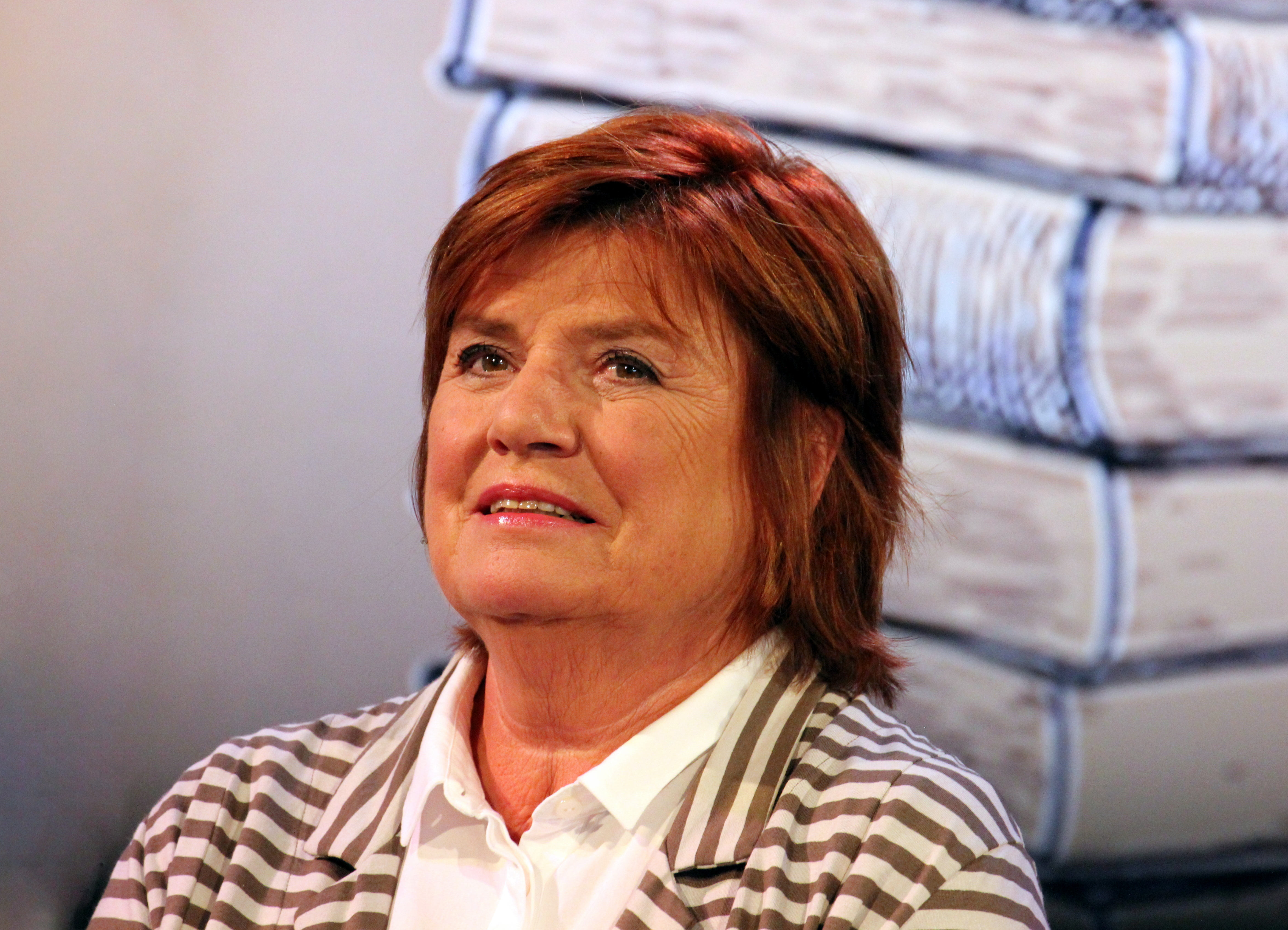 Christine Westermann Frankfurt Book Fair 2018